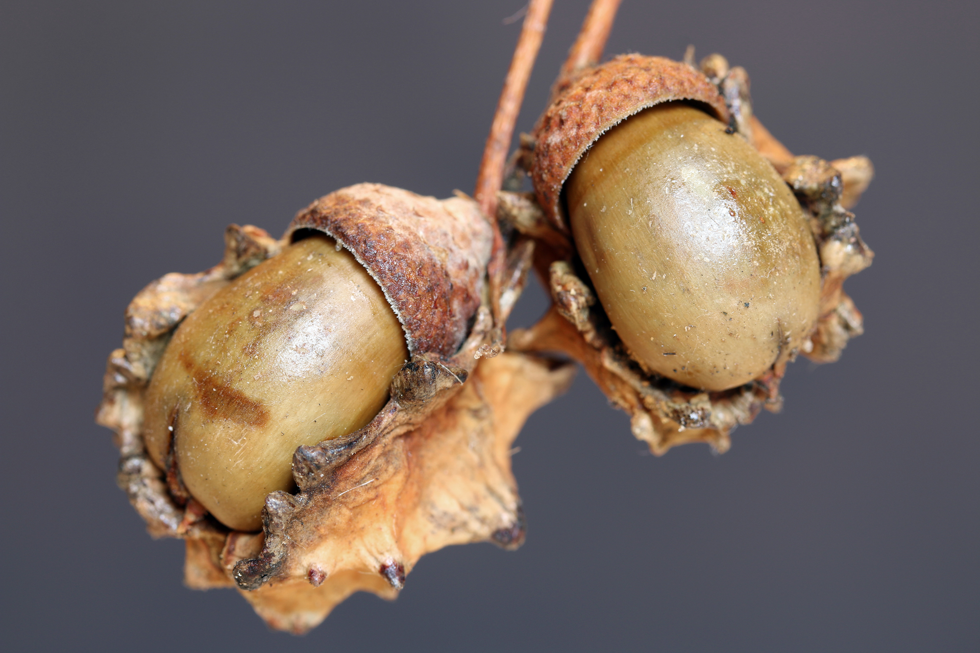 Andricus quercuscalicis on Quercus robur